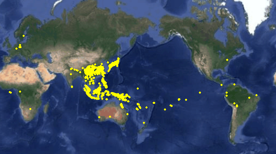 (28 July 2018) GBIF Occurrence Download Selliguea Bory